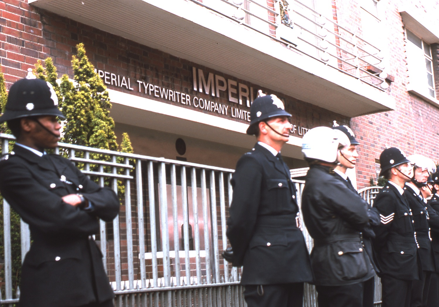 Police line up to protect the Imperial Typewriter Company during an "anti-Fascist" march and rally in Leicester, England, in August 1974. Other information Photo by George Garrigues.